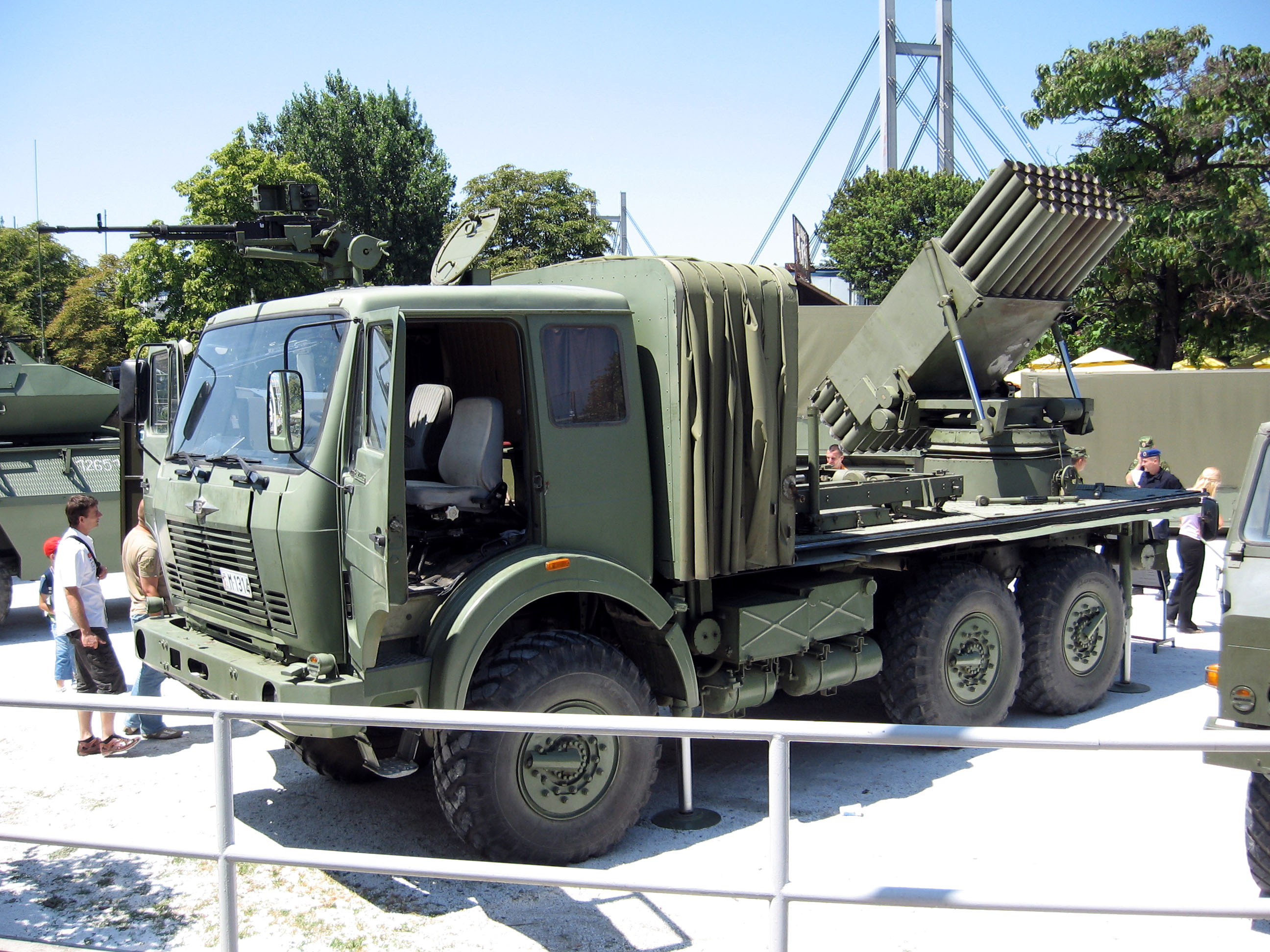 The M-77 Oganj is a MRLS made in Yugoslavia.